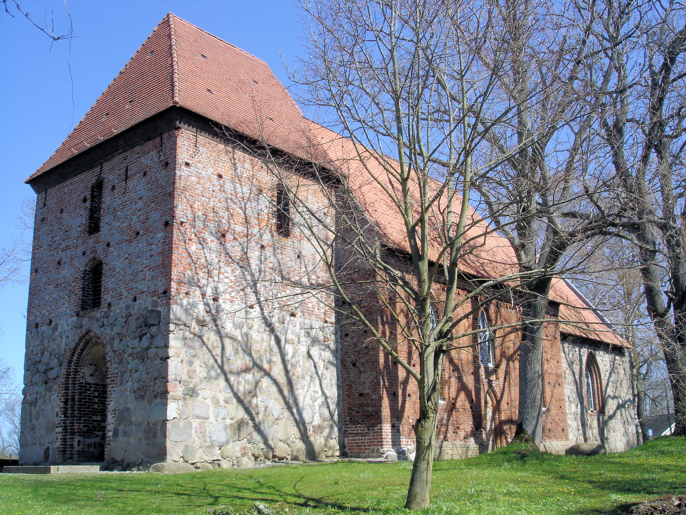 Church Ahrenshagen, Mecklenburg-Vorpommern, Germany